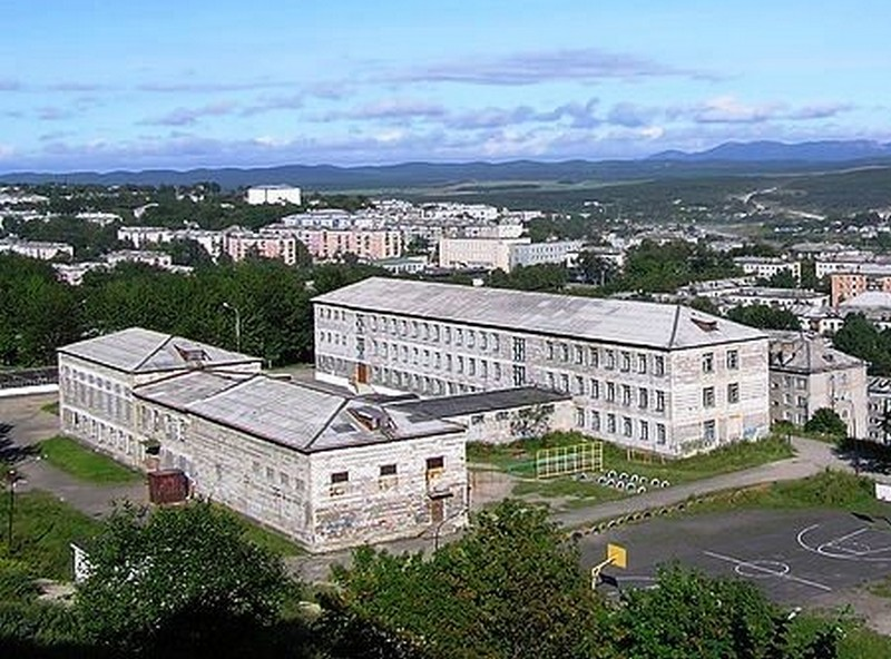 Middle school No.6 of Korsakov (Sakhalin region, Russia)